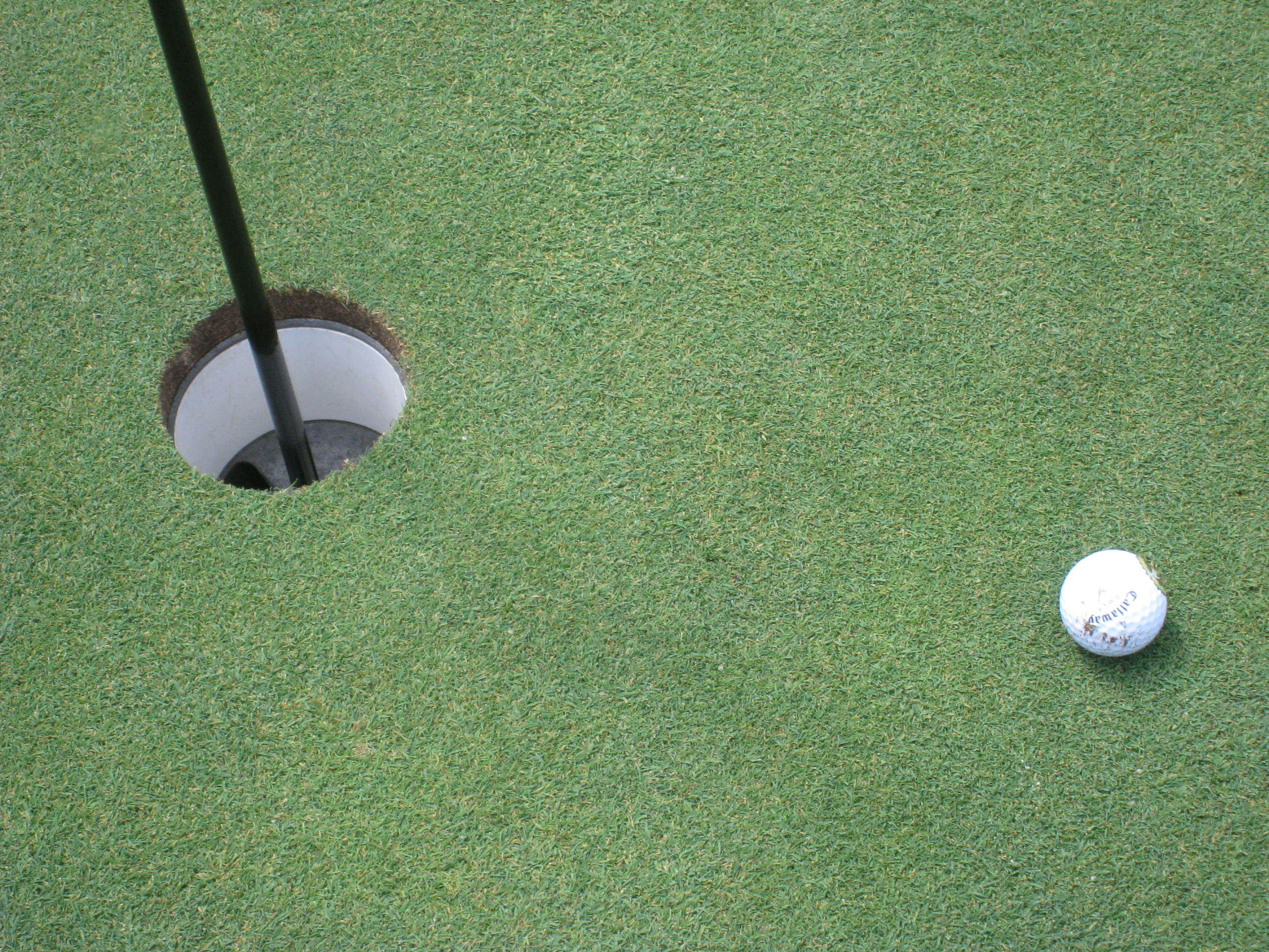 hole